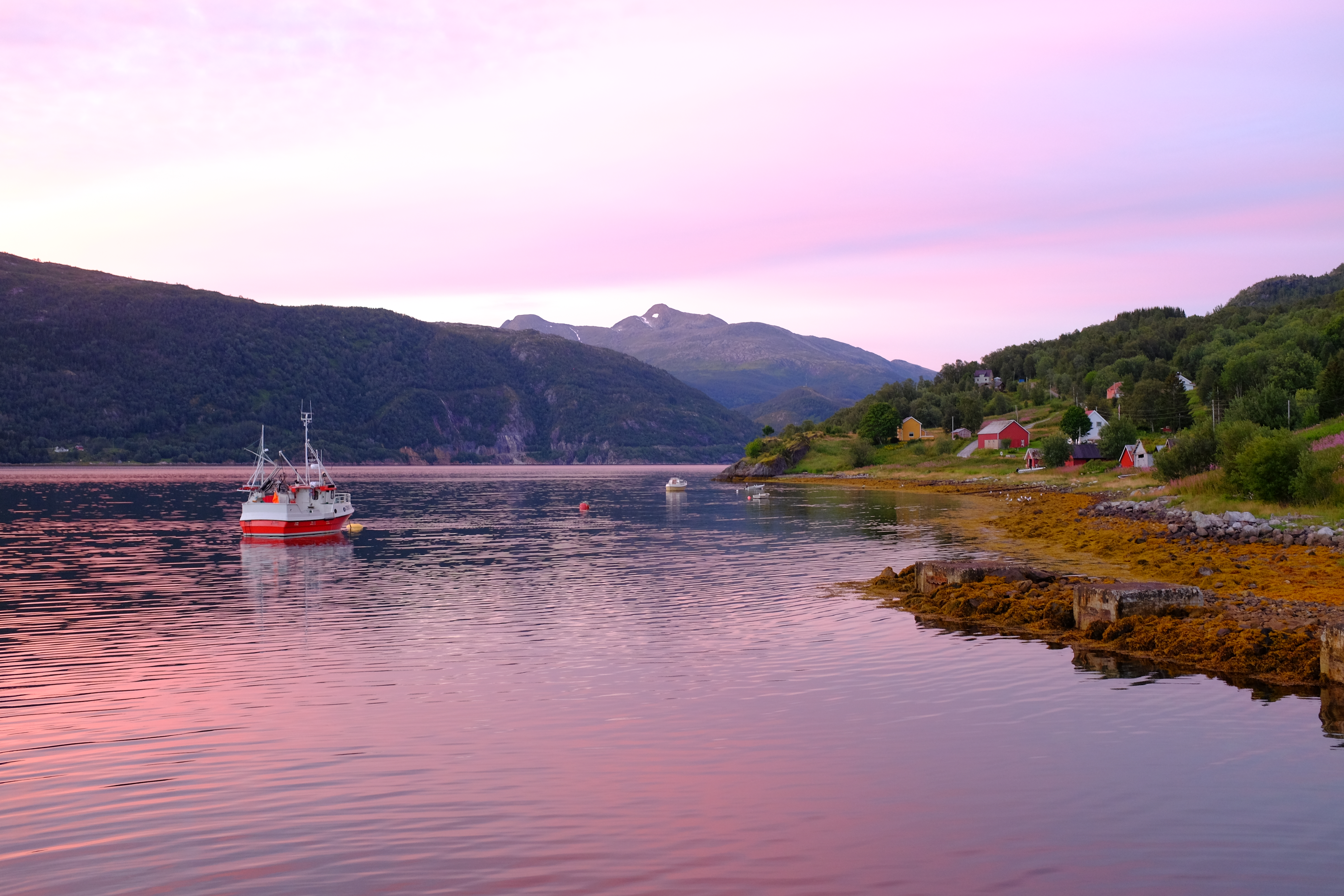 Sommerset was a former ferry place on E6 in Sørfold in Nordland, Norway. The place is located on the south side of Leirfjorden, a spur to the fjord Sørfolda.